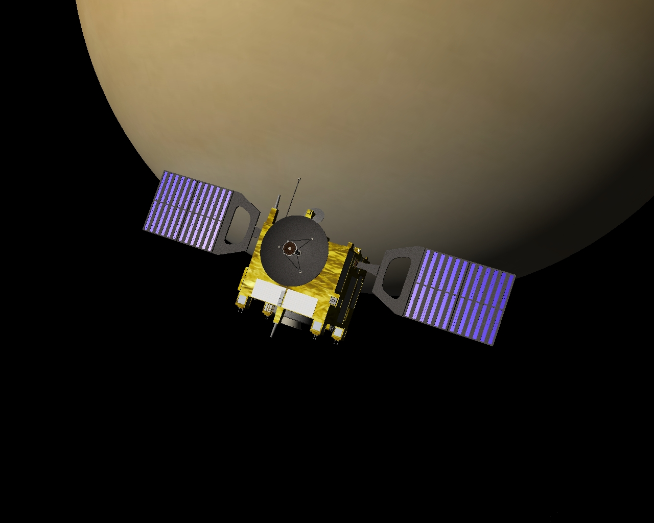 Venus Express in Venus orbit.